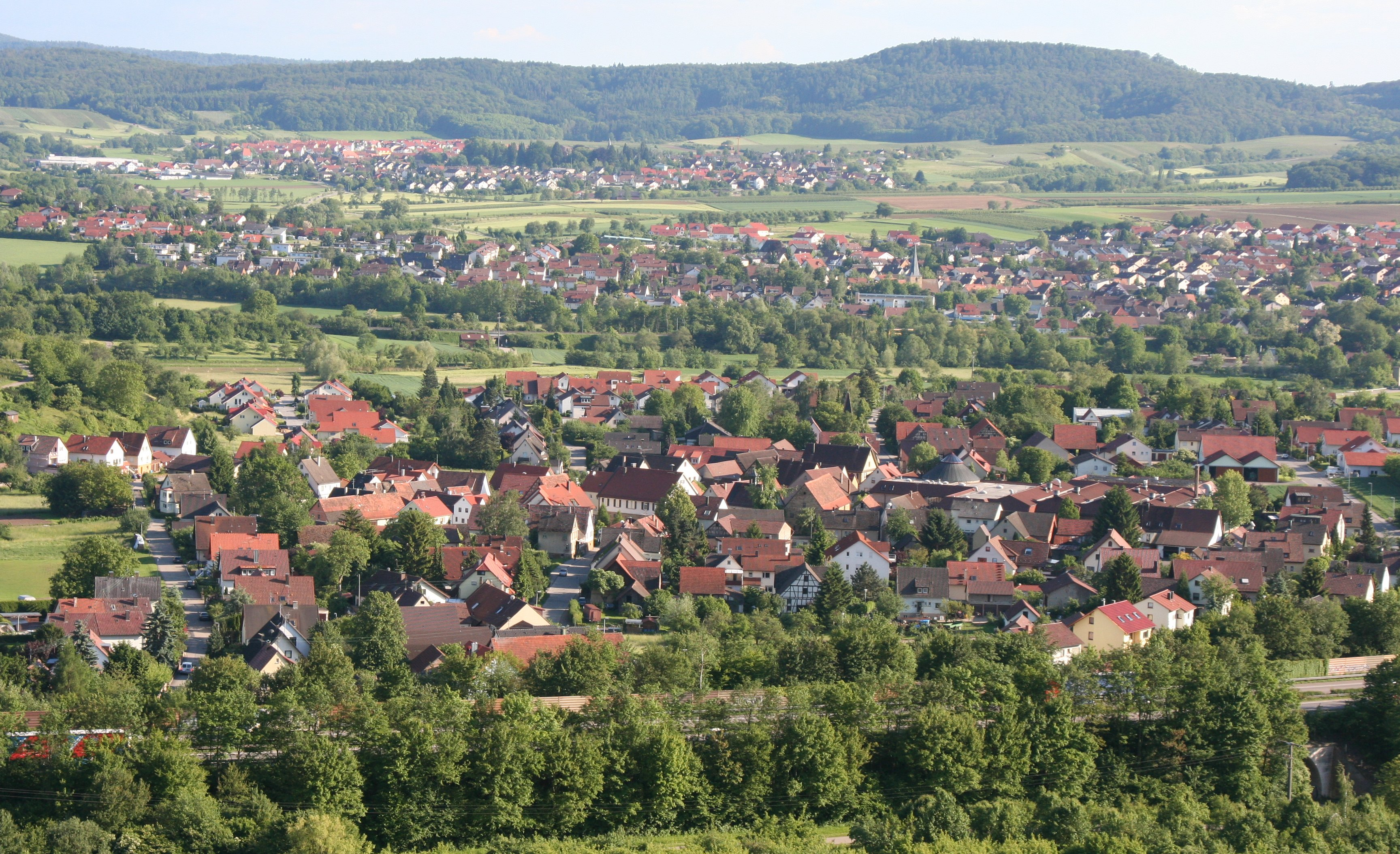 Weinsberg-Grantschen photographed from the North